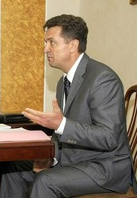 Stavropol. Governor of Stavropol Krai Valery Gayevsky.